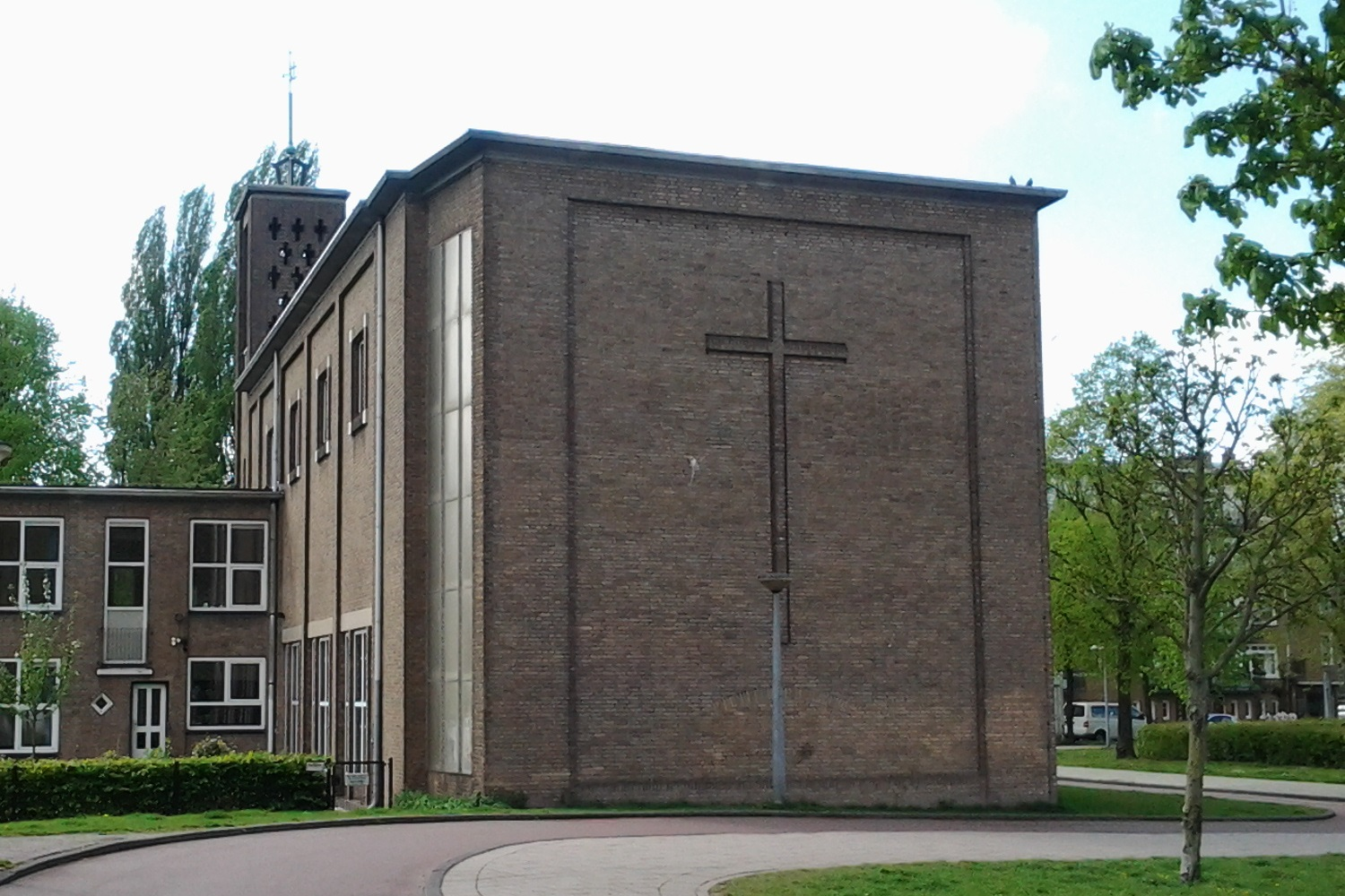 Augustanakerk, protestant church in Amsterdam-West